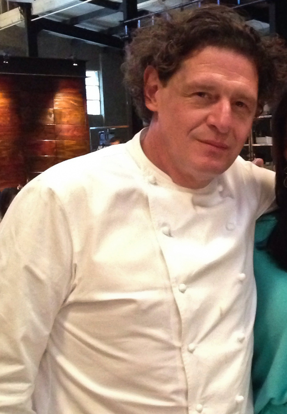 Marco Pierre White in 2012 at the Melbourne, Australia filming location of Masterchef: The Professionals.